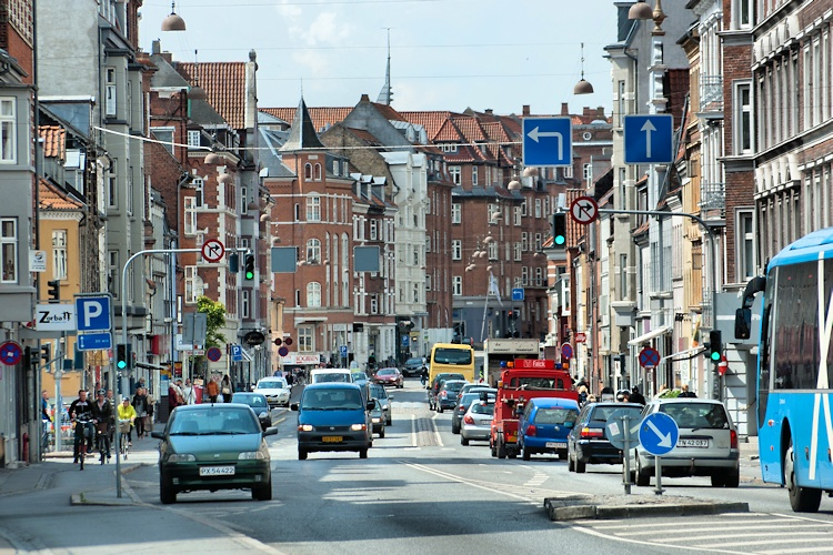 Looking south down Frederiks Allé.